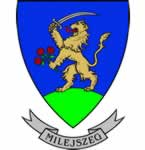 Coat of arms of Milejszeg, Hungary